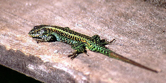 A Painted Lizard in southwestern Chiloe, south Chile. In context at